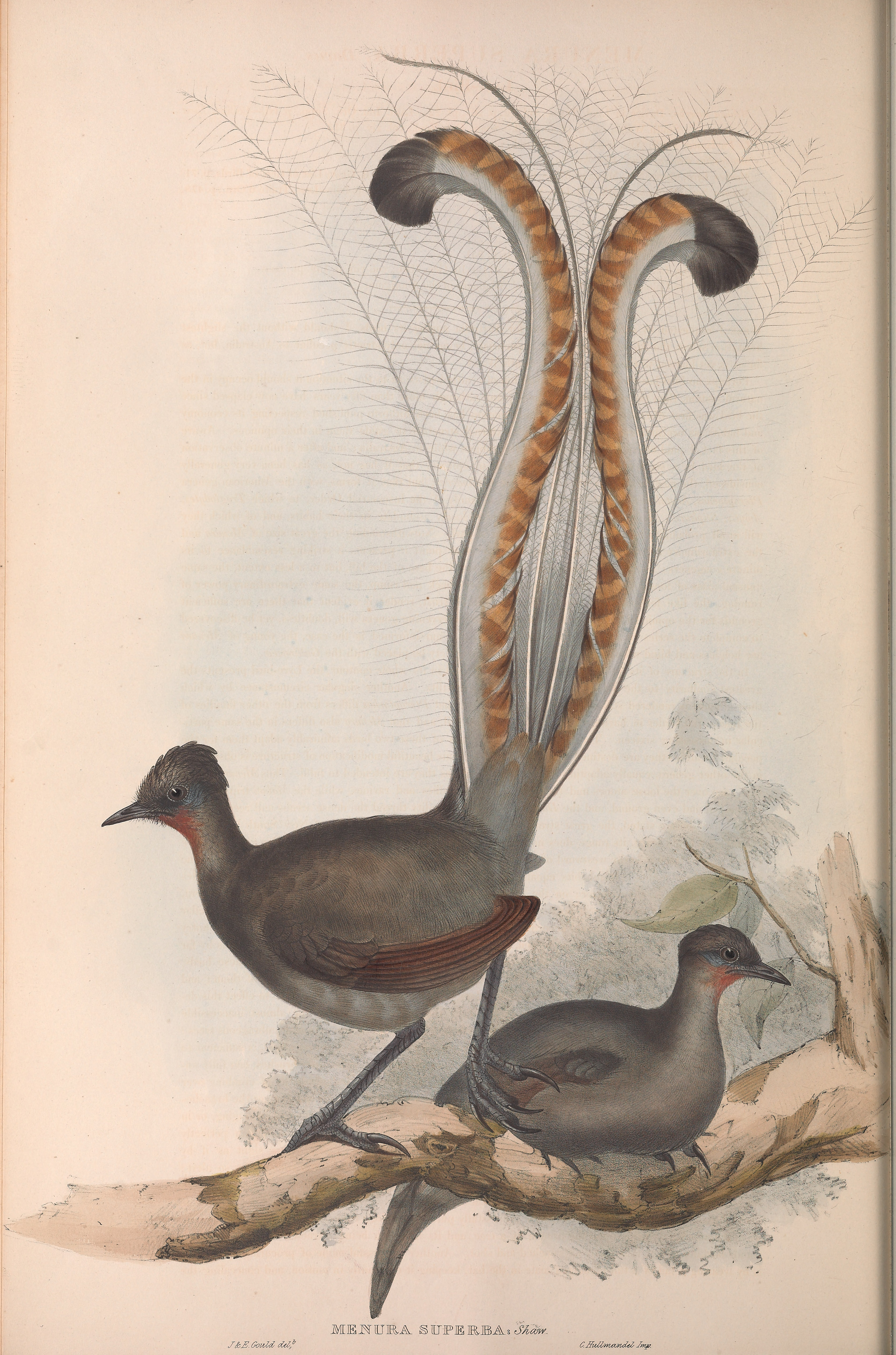 Lyrebird (Menura novaehollandiae) John Gould's painting is of specimens at the British Museum, which had been prepared for display by a taxidermist who had never seen a live Lyrebird, with the result that, unfortunately, the tail in the display is not accurate within this painting. Please check the English-language external links for photos of living Lyrebirds, to see how the tail is accurately displayed.